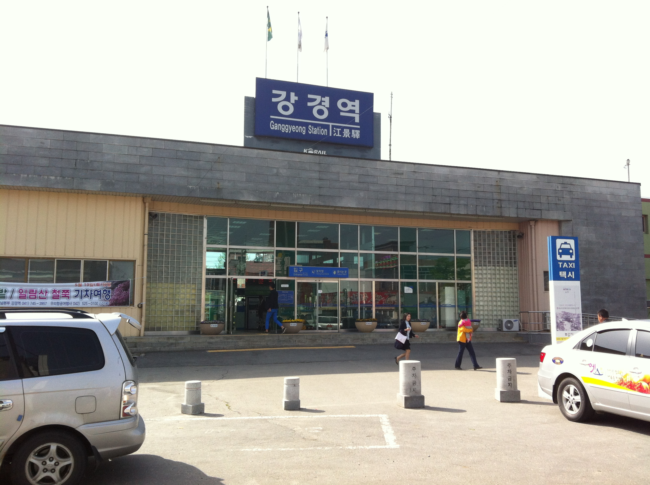 Ganggyeong Station, a train station within Honam line, Korea